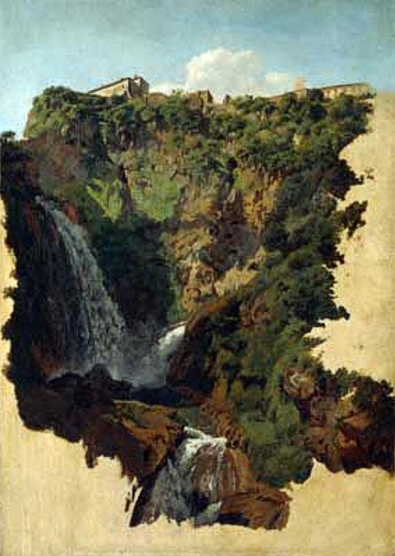 "The Cascade at Tivoli", Oil on paper laid onto canvas, 56.2 x 39.6 cm., steep rocky cliff and the Cascatelli falls